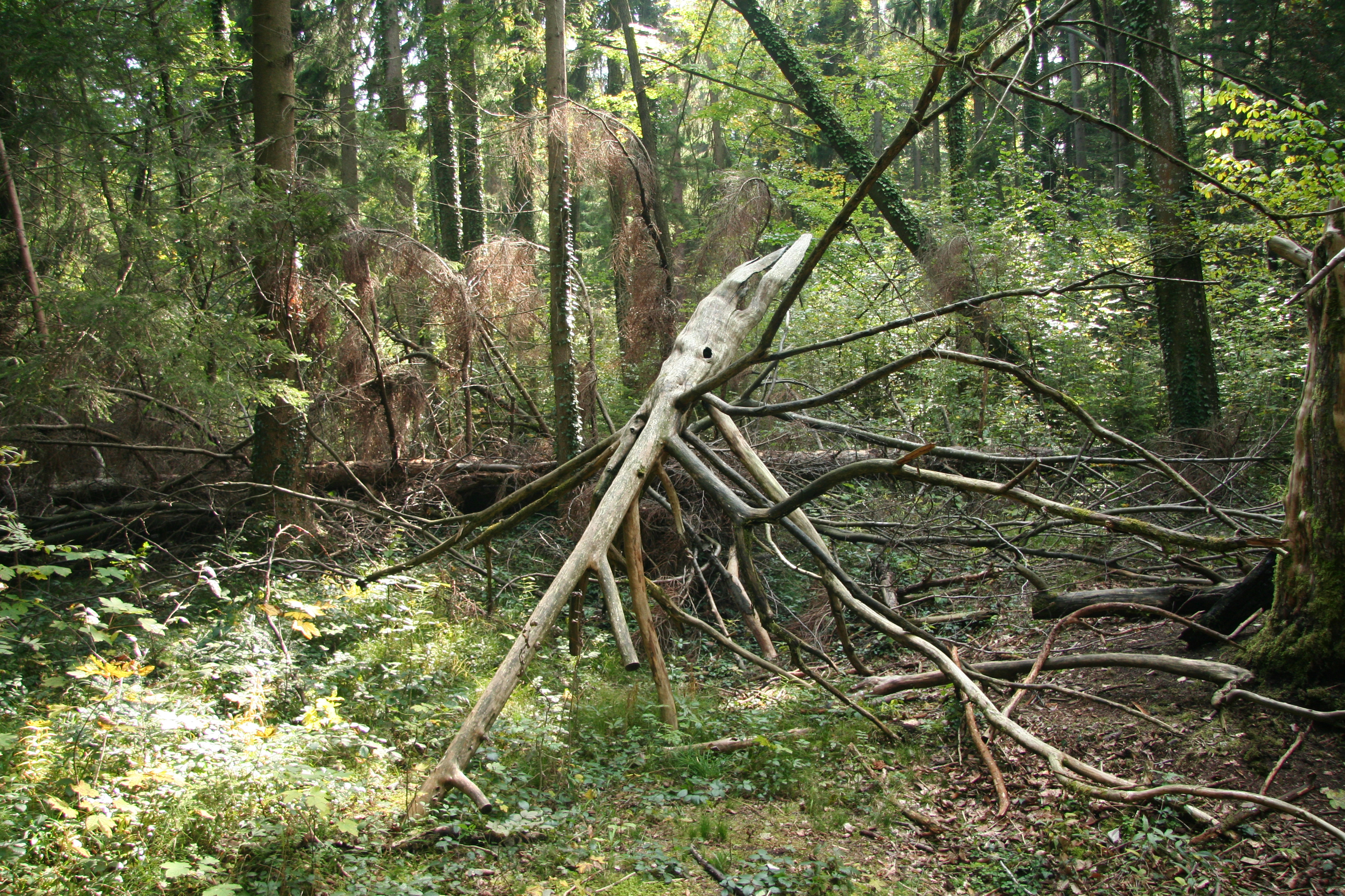 Remains of a Taxus baccata in the Bavarian natural reserve "Paterzeller Eibenwald" after a fire raising